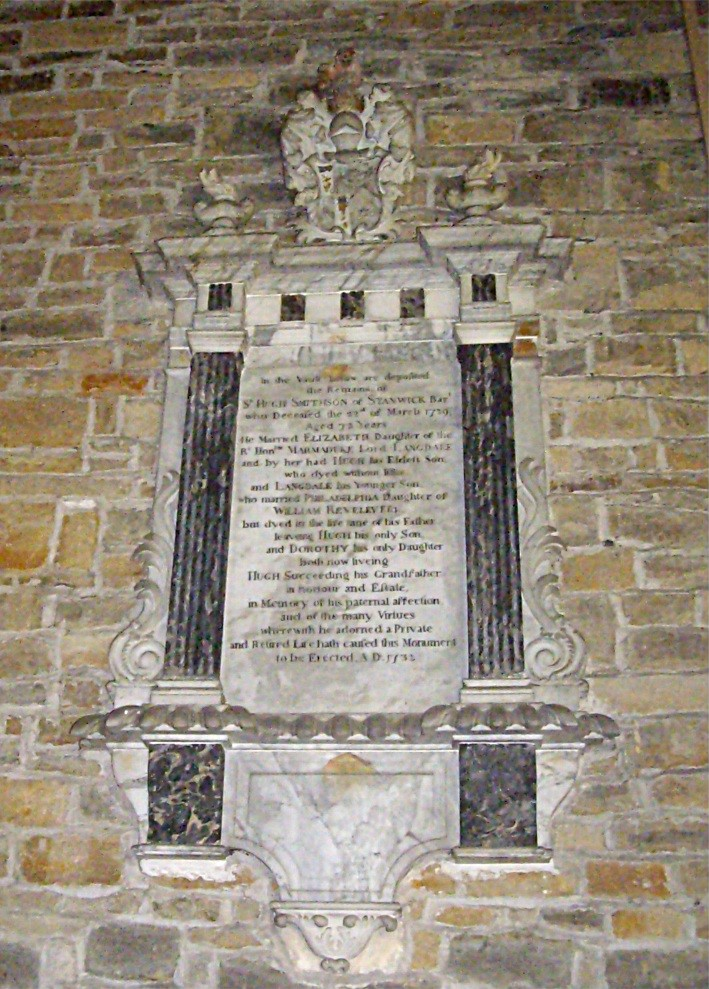 Smithson memorial plaque, near to Stanwick-st-John, North Yorkshire, Great Britain. On wall of the church of St John the Baptist, Stanwick.